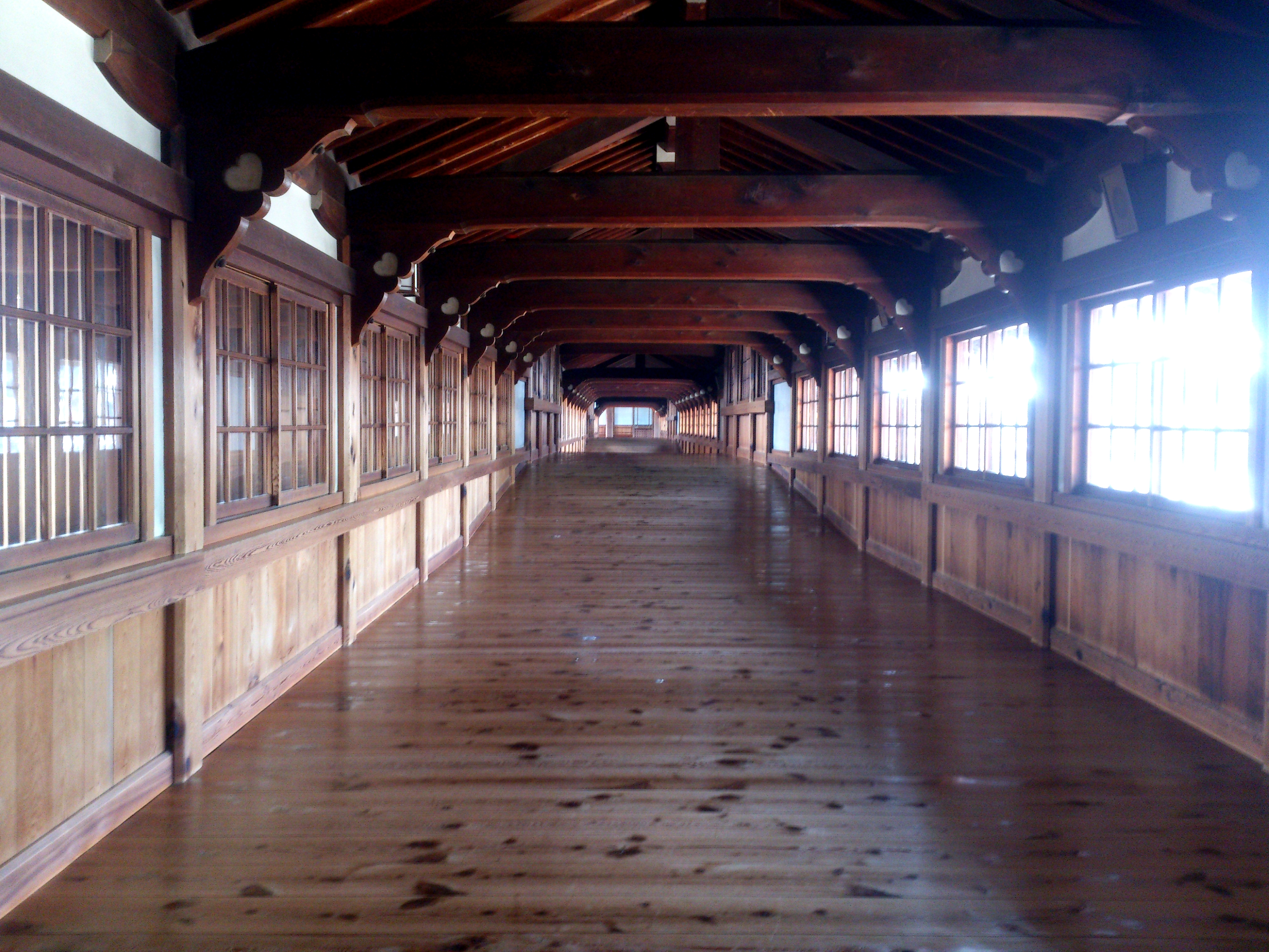 tenrikyo_kyokaihonbu